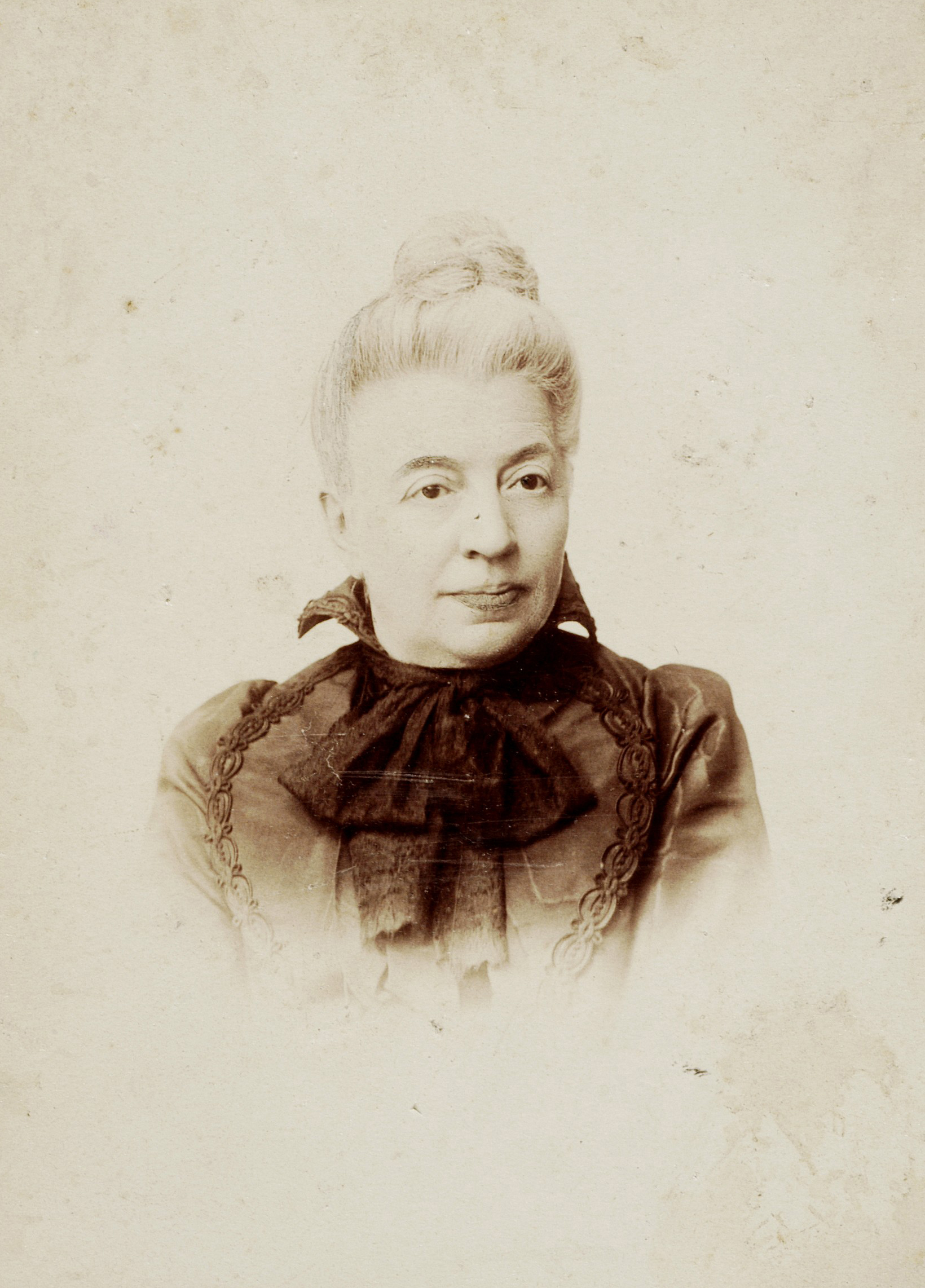 Eliza Orzeszkowa (6 June 1841 – 18 May 1910), Polish novelist and a leading writer of the Positivism movement during foreign Partitions of Poland who in 1905, together with Henryk Sienkiewicz, was nominated for the Nobel Prize in Literature.